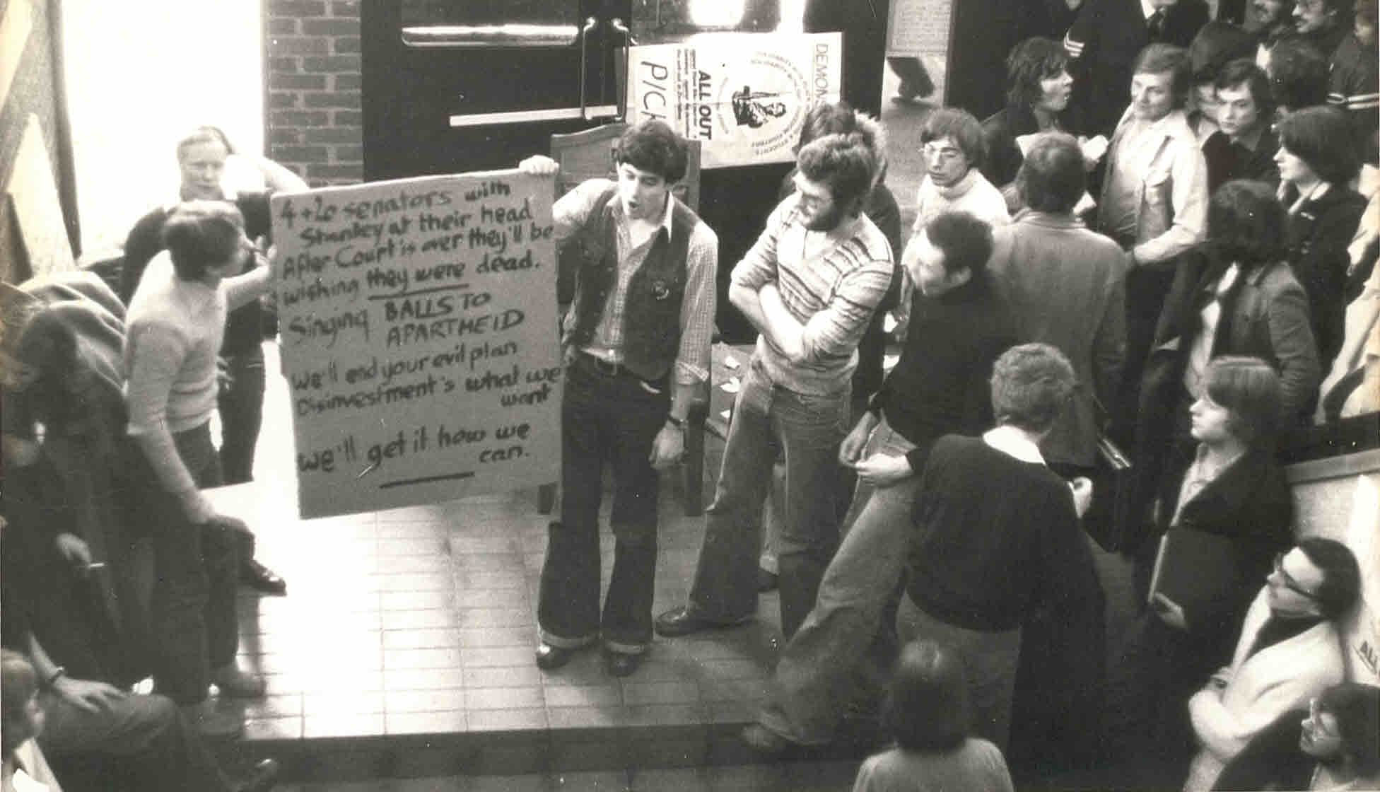 Demonstration against Apartheid in the Hull University Students' Union, 1978. In the photo are David Hanson, and next to him Labour Club members Marie Bourke and Keith Hanson.